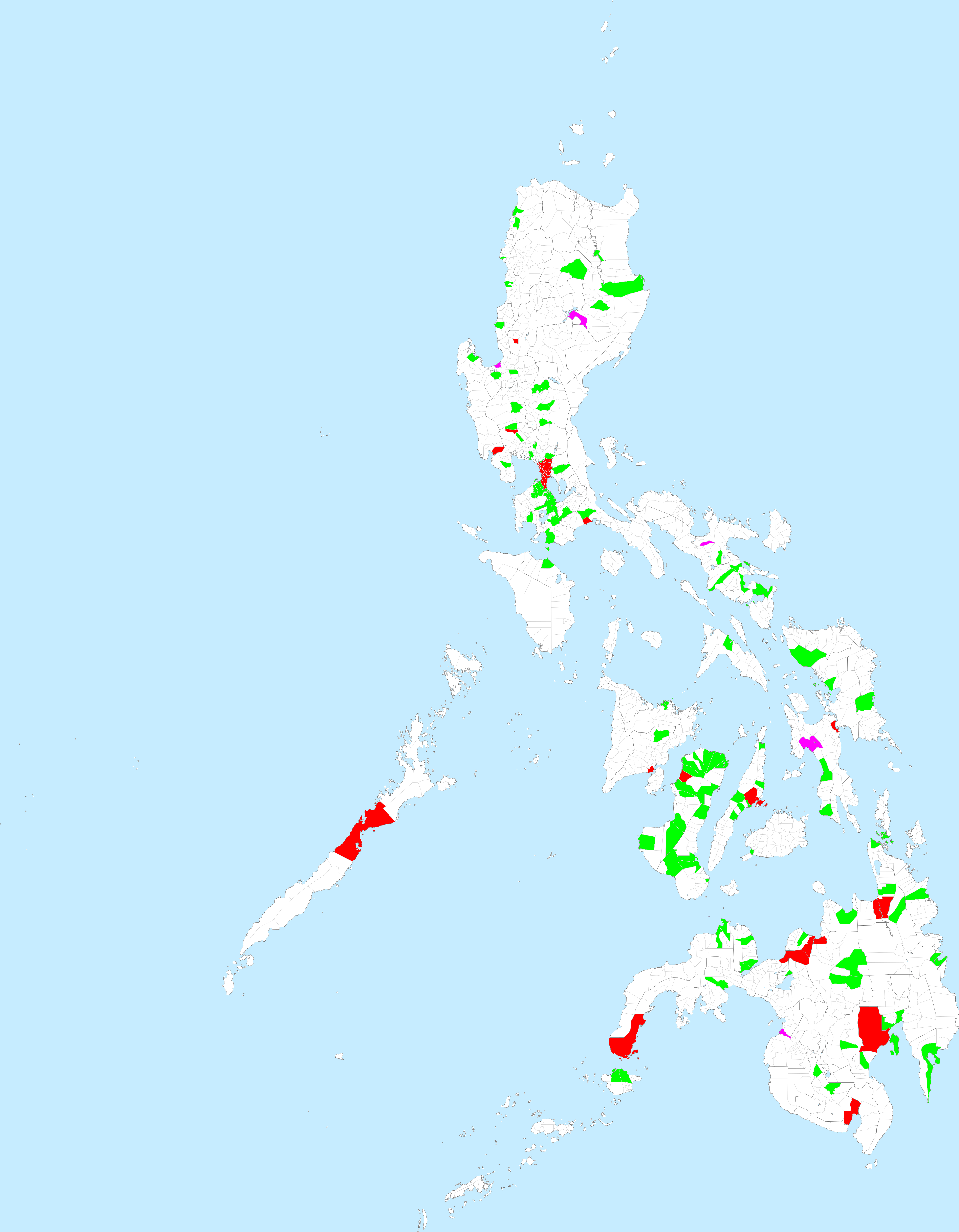 Map of the Philippines showing its cities and municipalities. Highly urbanized cities are highlighted in red, Independent Component cities in purple, Component cities in green, and Municipalities in white.